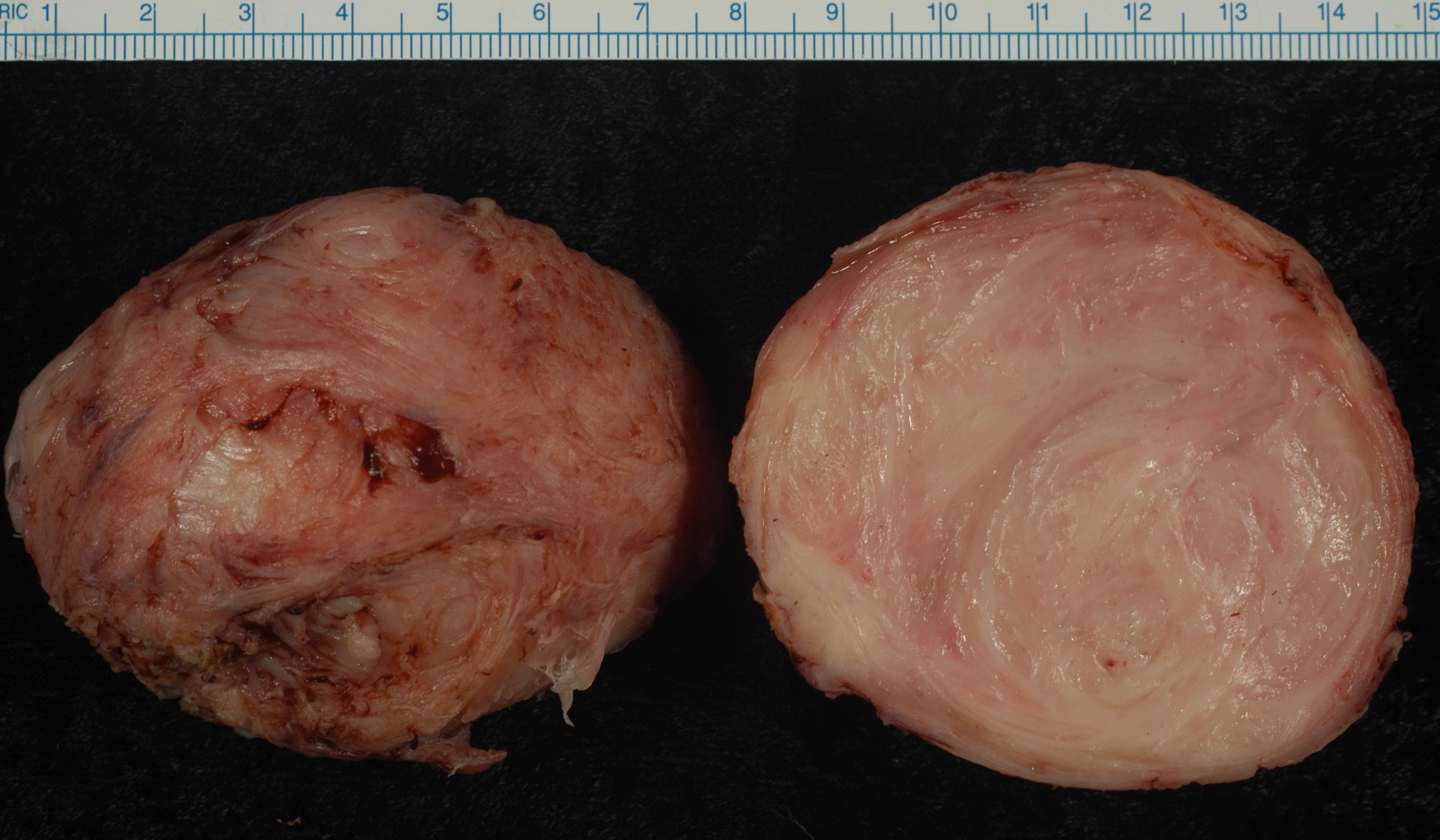 Leiomyoma from a uterine myomectomy